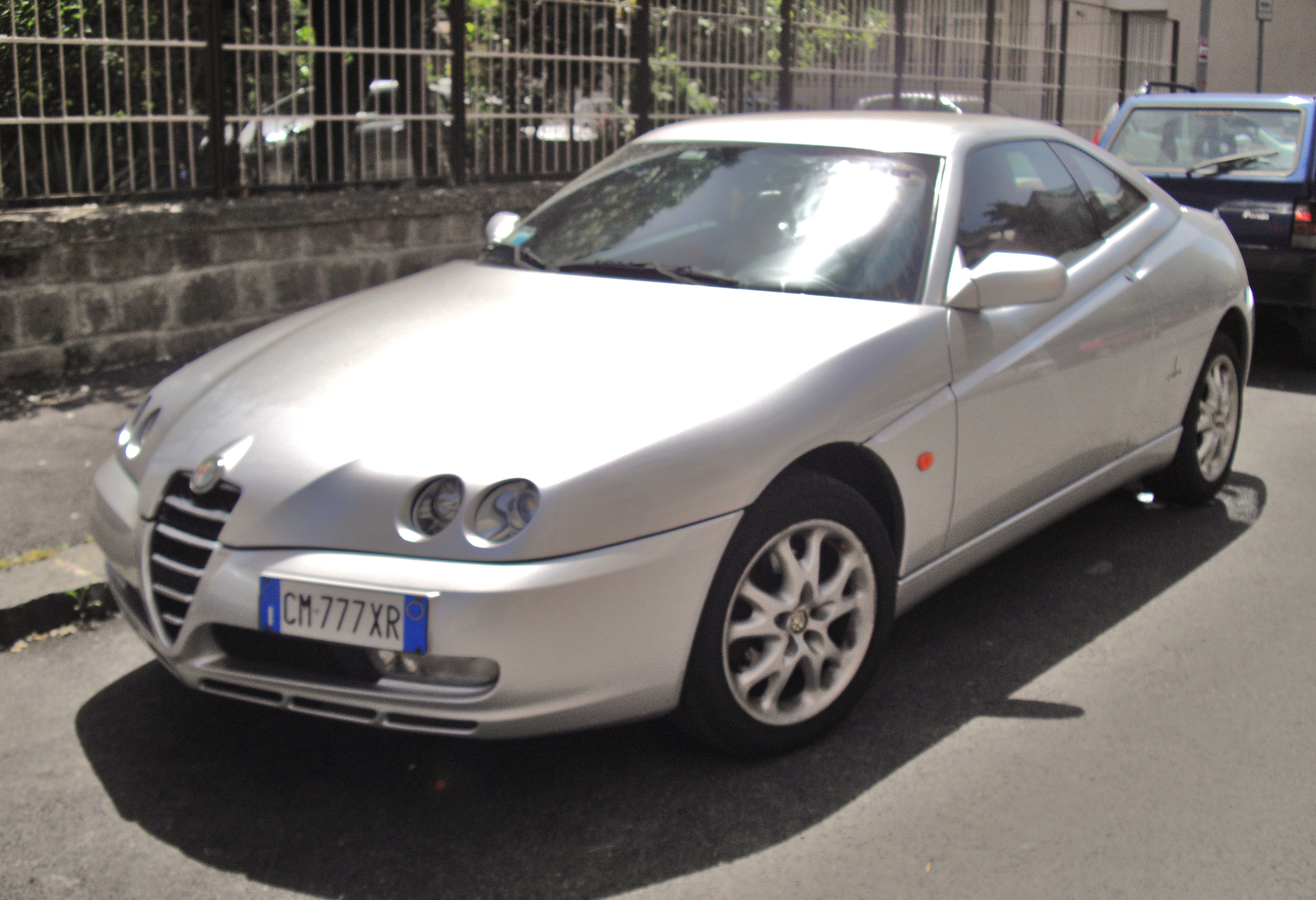 Alfa GTV